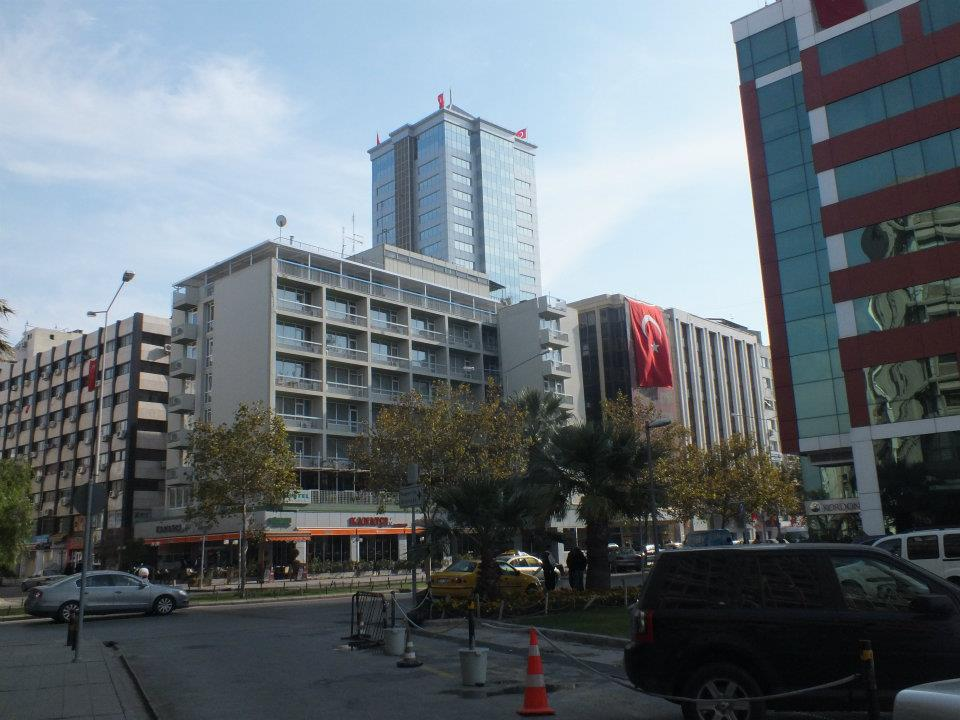 Heris Tower in Izmir, Turkey.